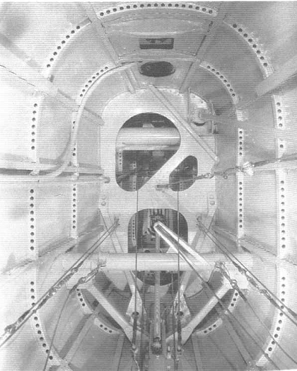 Boeing F4B-3 fuselage structure